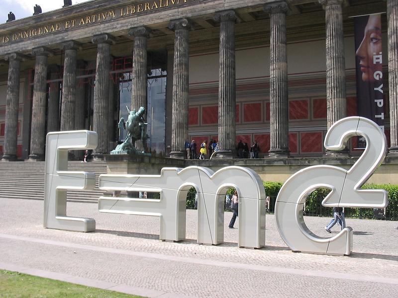 „Relativity“, sixth und last sculpture of the Berliner Walk of Ideas on the occasion of 2006 FIFA World Cup Germany. Unveiling: 19 May 2006 in Lustgarten. In the background: Altes Museum (Old Museum), between 1825 and 1828 built by Schinkel.